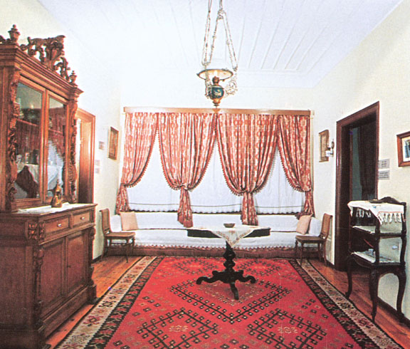 Living room, image from the Ataturk Museum, Thessaloniki, Central Macedonia, Greece